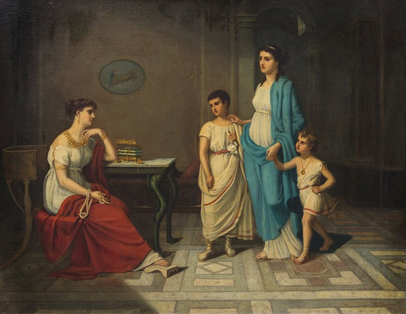 Cornelia and her Jewels by Elizabeth Jane Gardner Bouguereau, 1870, oil on canvas laid to board